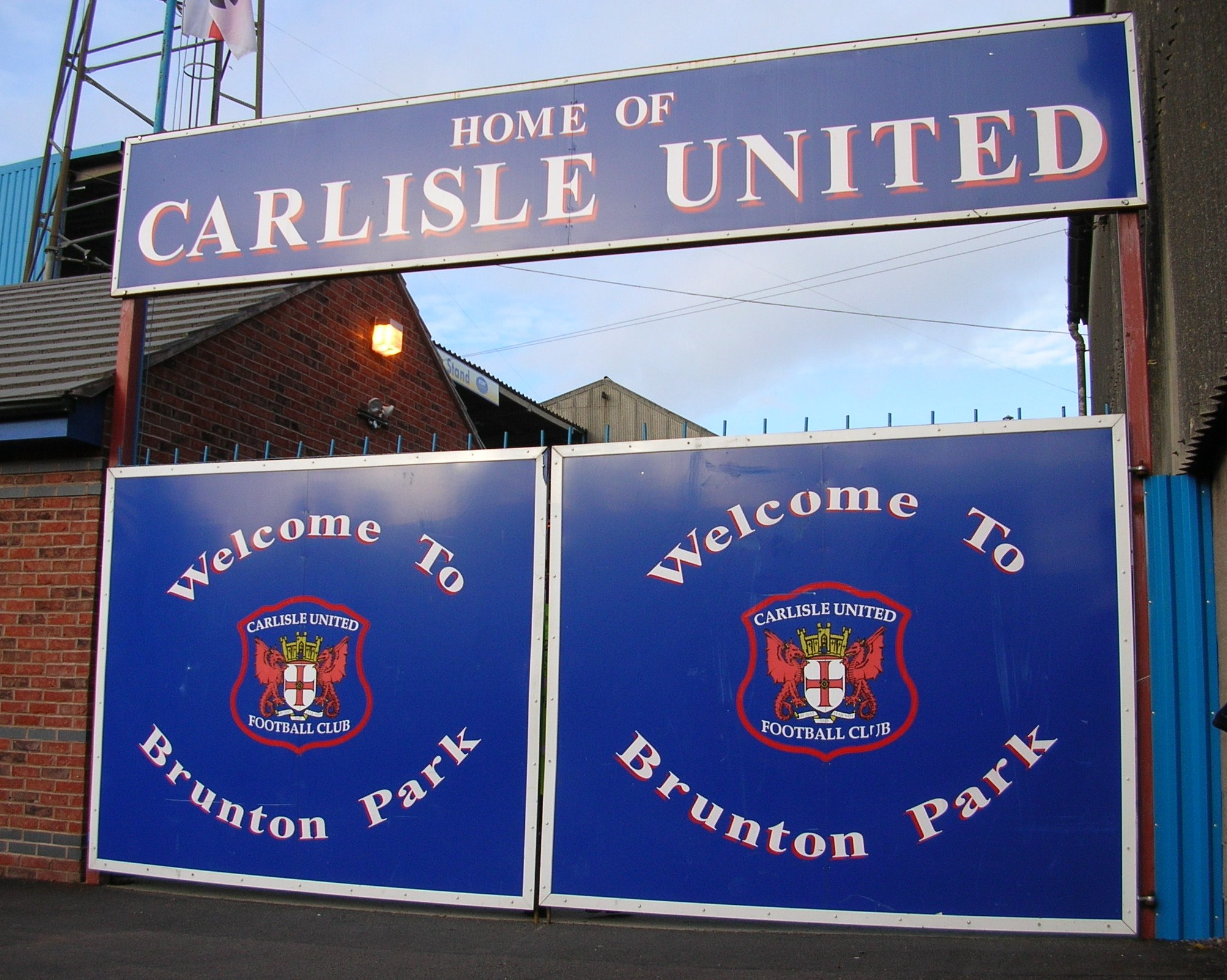 Welcome sign at Brunton Park, home of Carlisle United F.C.